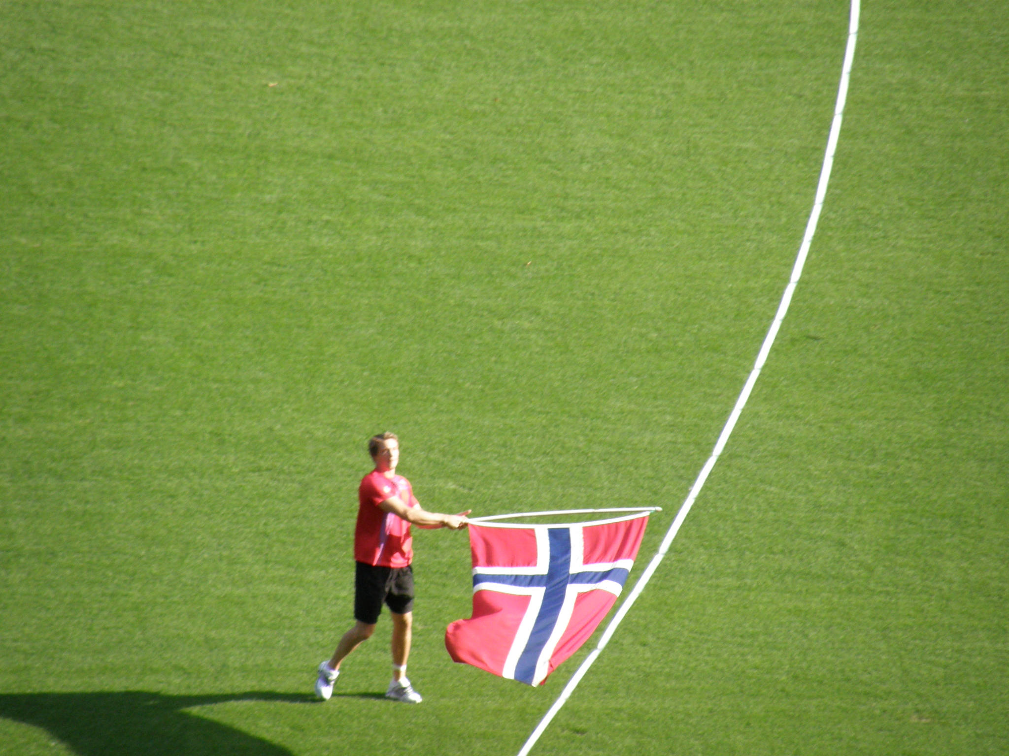 Andreas Thorkildsen - Berlin 2009